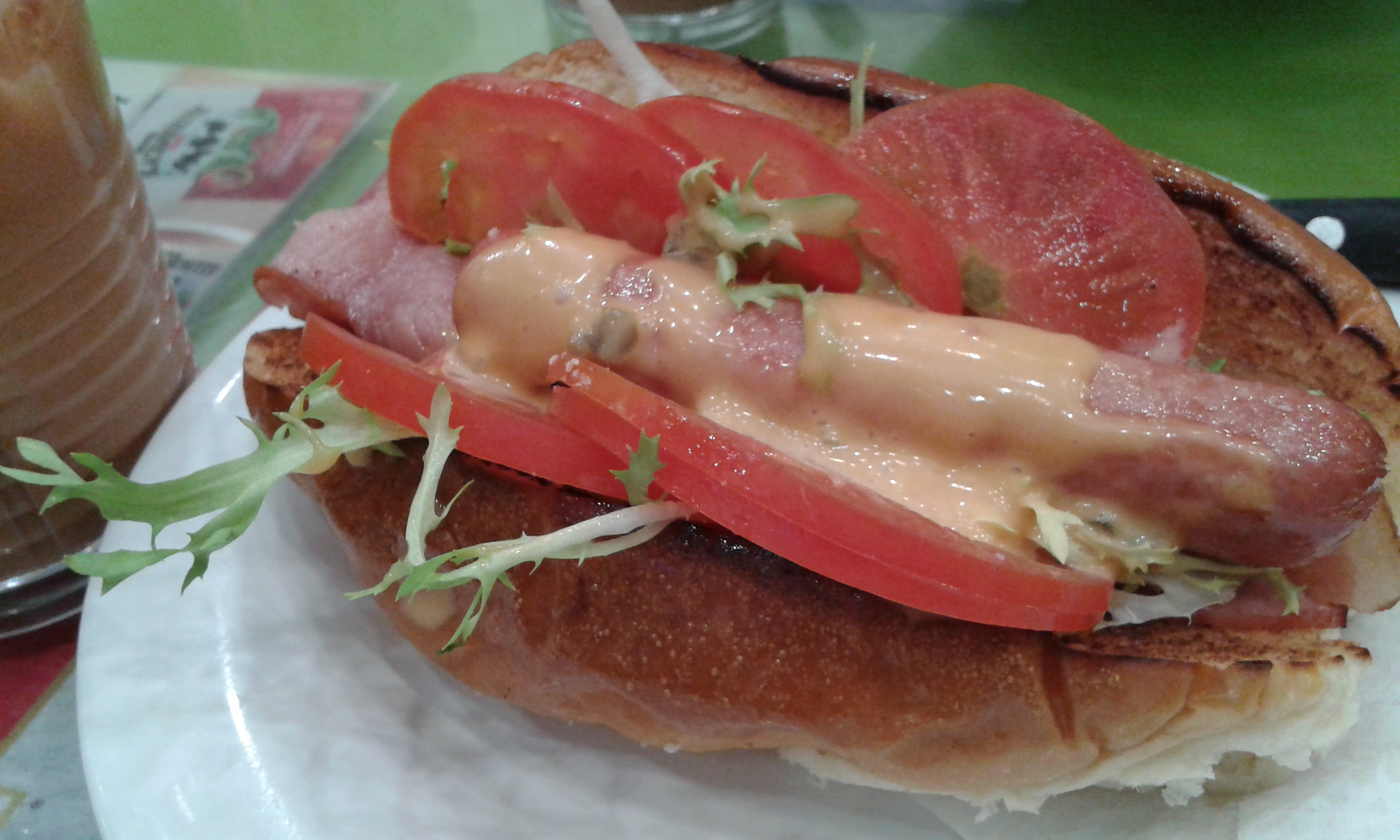 hot dog in Macau This photo has been taken in the country: China